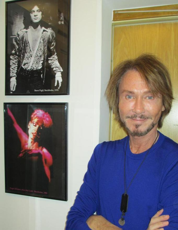 Christer Lindarw poses with portraits of late friends & ensemble members Steve Vigil & Roger JönssonPlace: Lars Jacob residence, Stockholm, Sweden